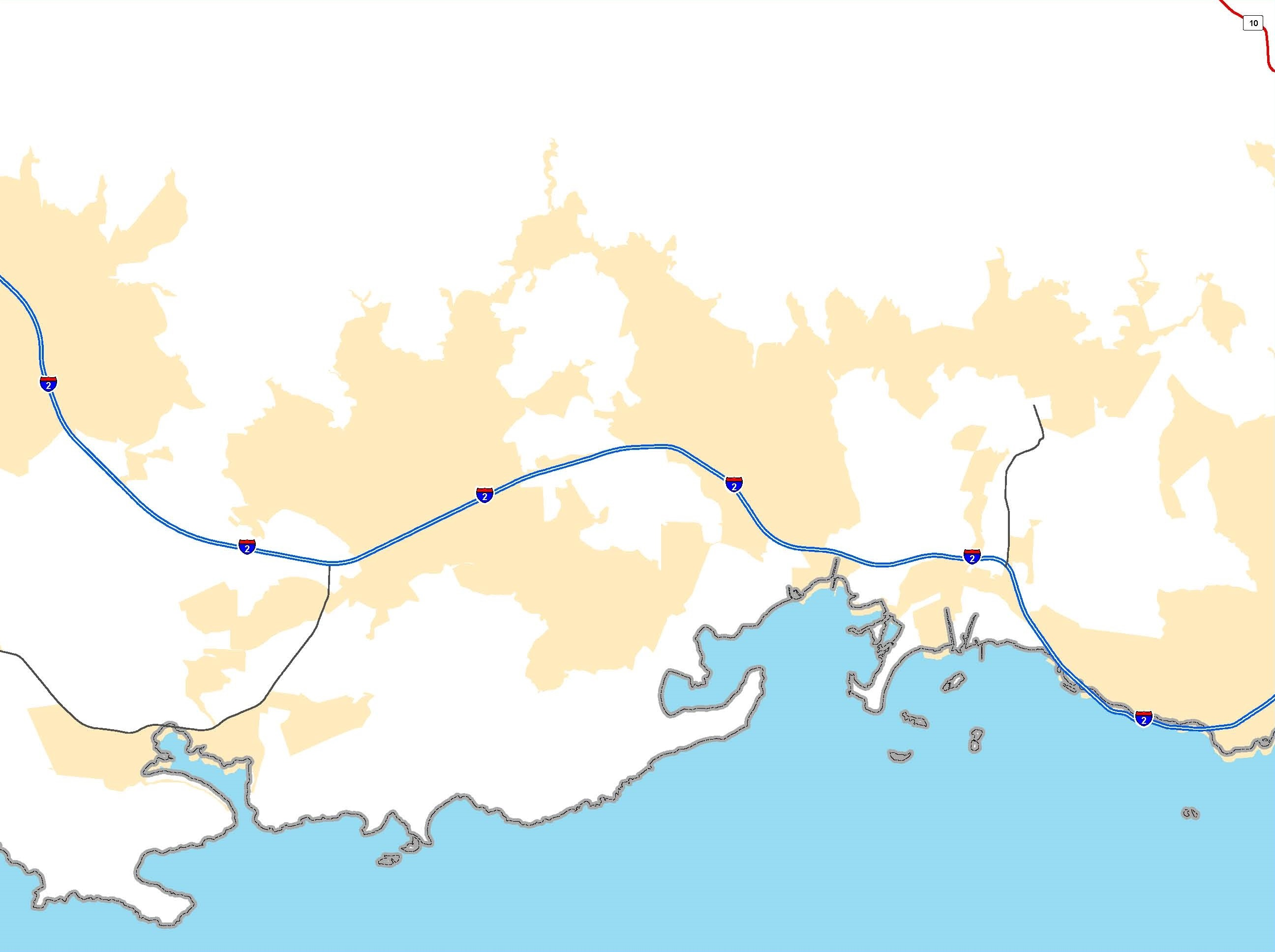 USDOT FHWA NHS map of PRI-2 tthrough Yauco, Puerto Rico